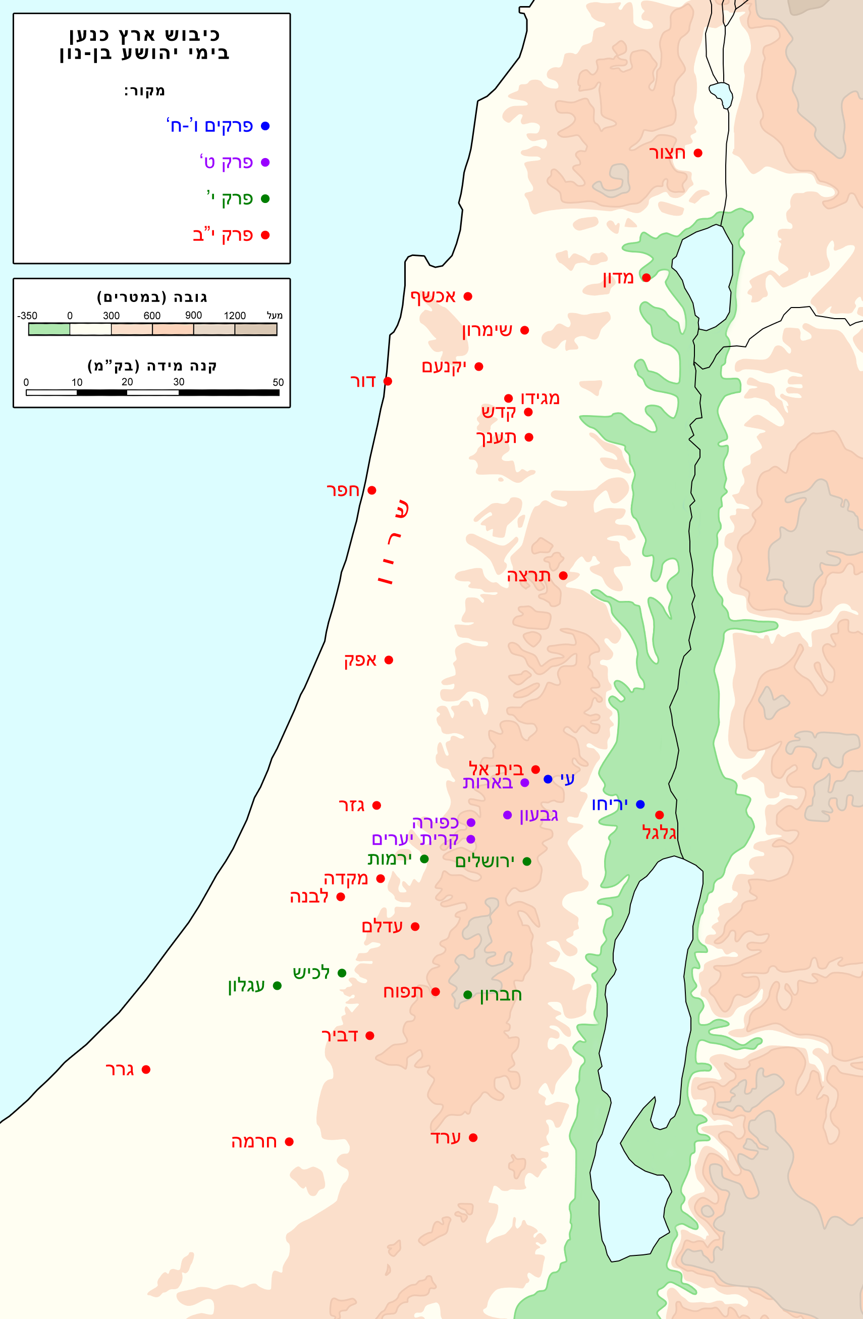 Conquest of Canaan, as appears in the book of Joshua